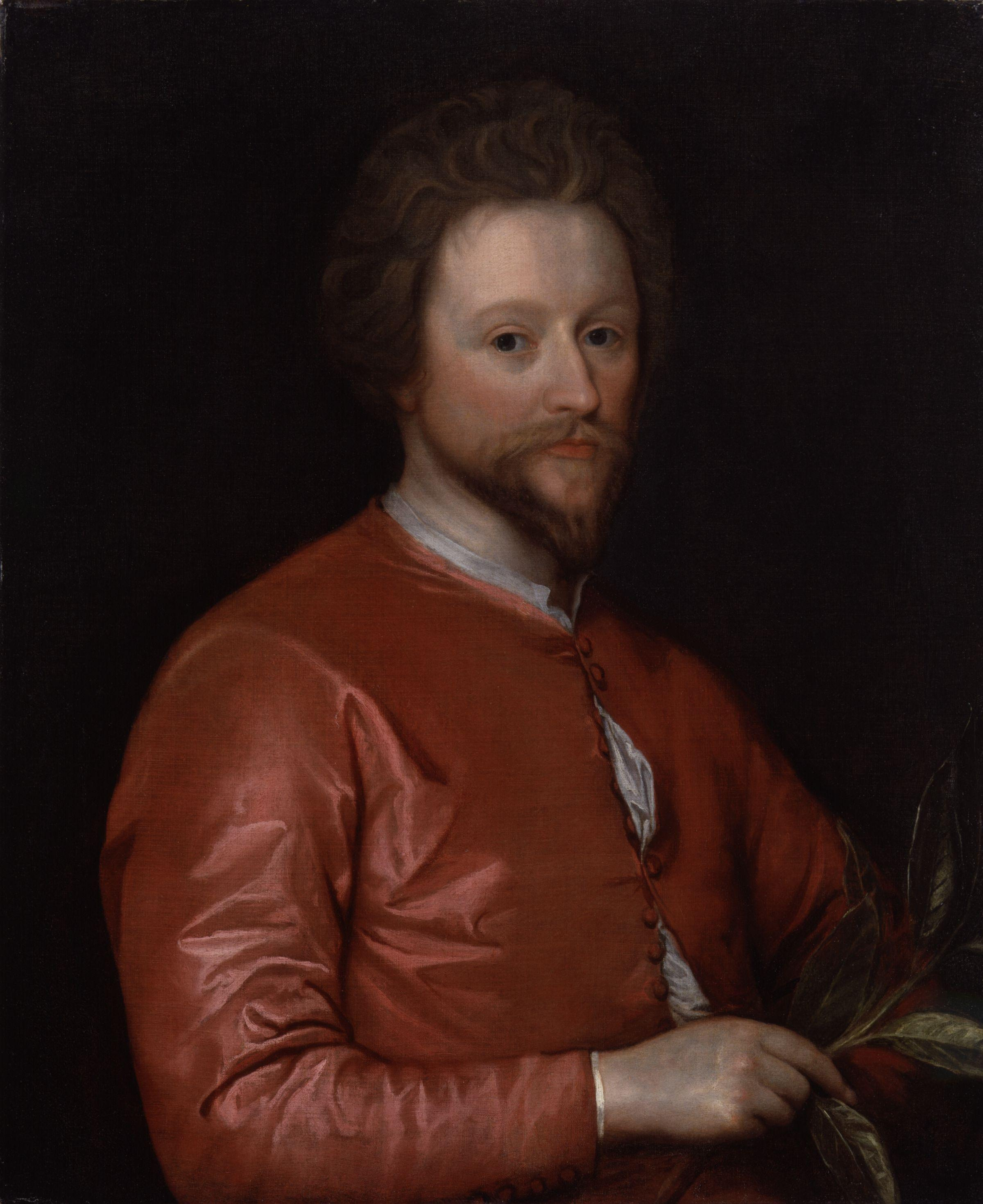 John Fletcher, by unknown artist. All images in this batch are listed as "unknown author" by the NPG, who is diligent in researching authors, and was donated to the NPG before 1939 according to their website.